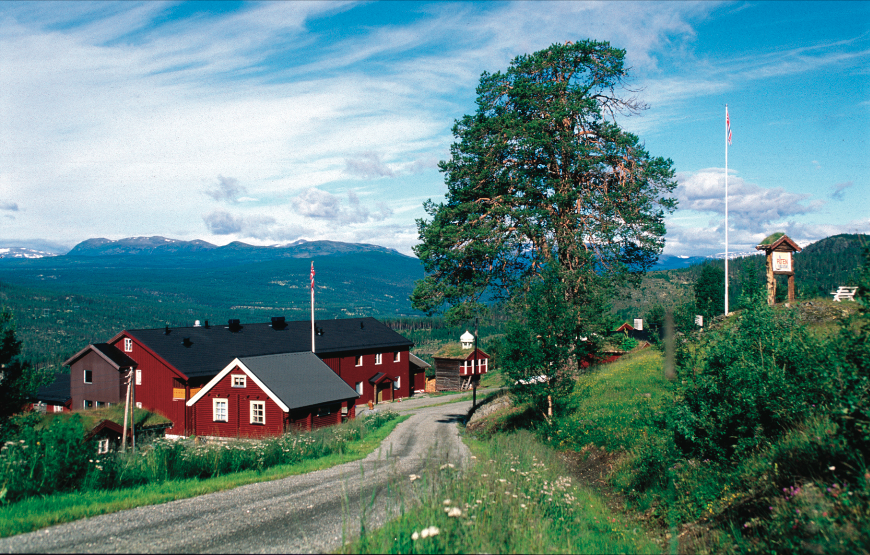 A summer picture of Ruten Fjellstue in Espedalen Valley